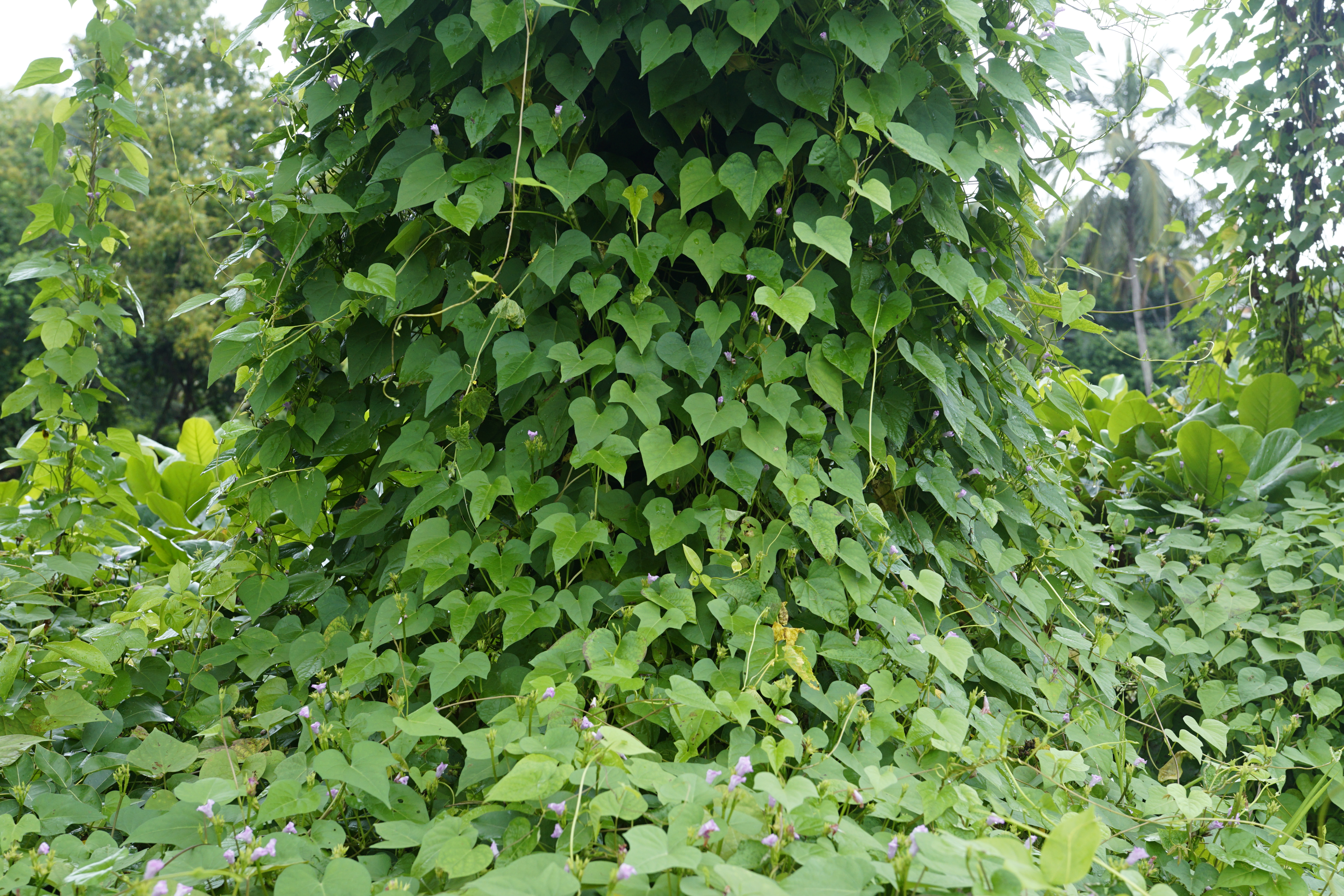 Ipomoea triloba